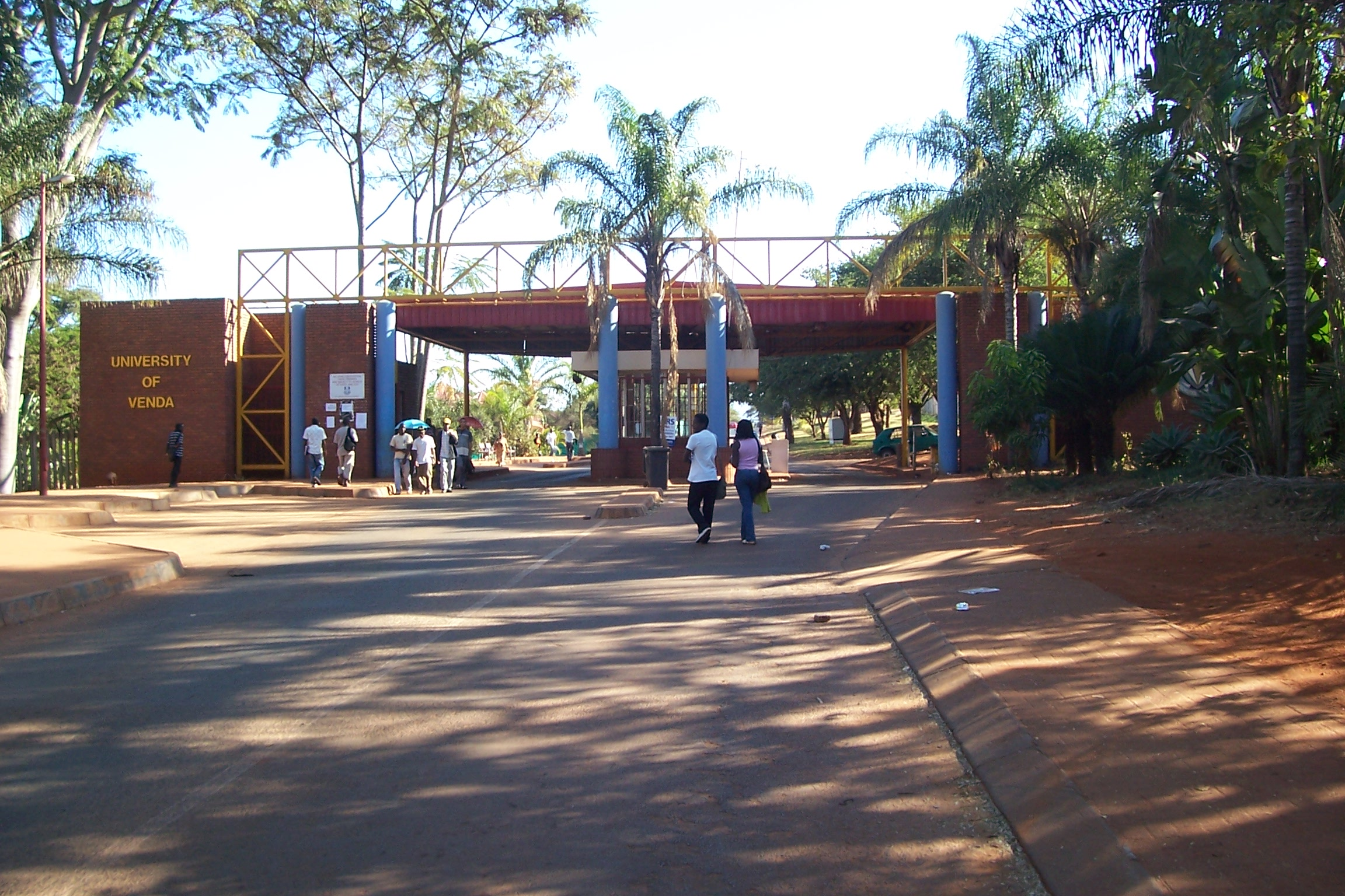 the beauty of univen